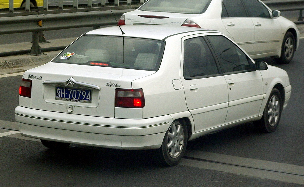 京H 70794 Citroën Elysée (tail), found in Beijing, China